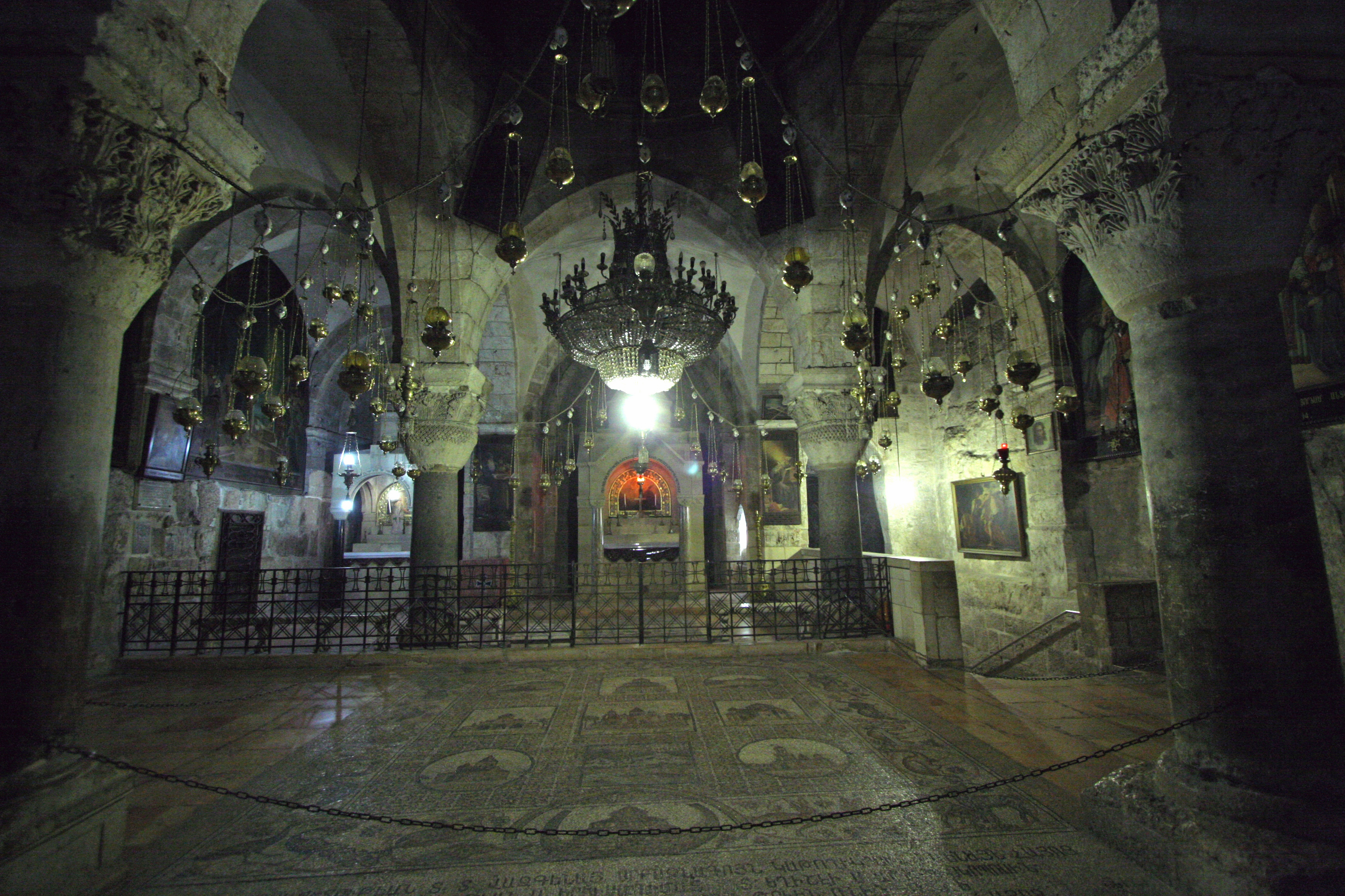 The Crusader-era Armenian Chapel of St. Helena on the lower level of the Church of the Holy Sepulchre in Jerusalem. The columns come form the original church that was built on the site by Saint Helena, the mother of Emperor Constantine.